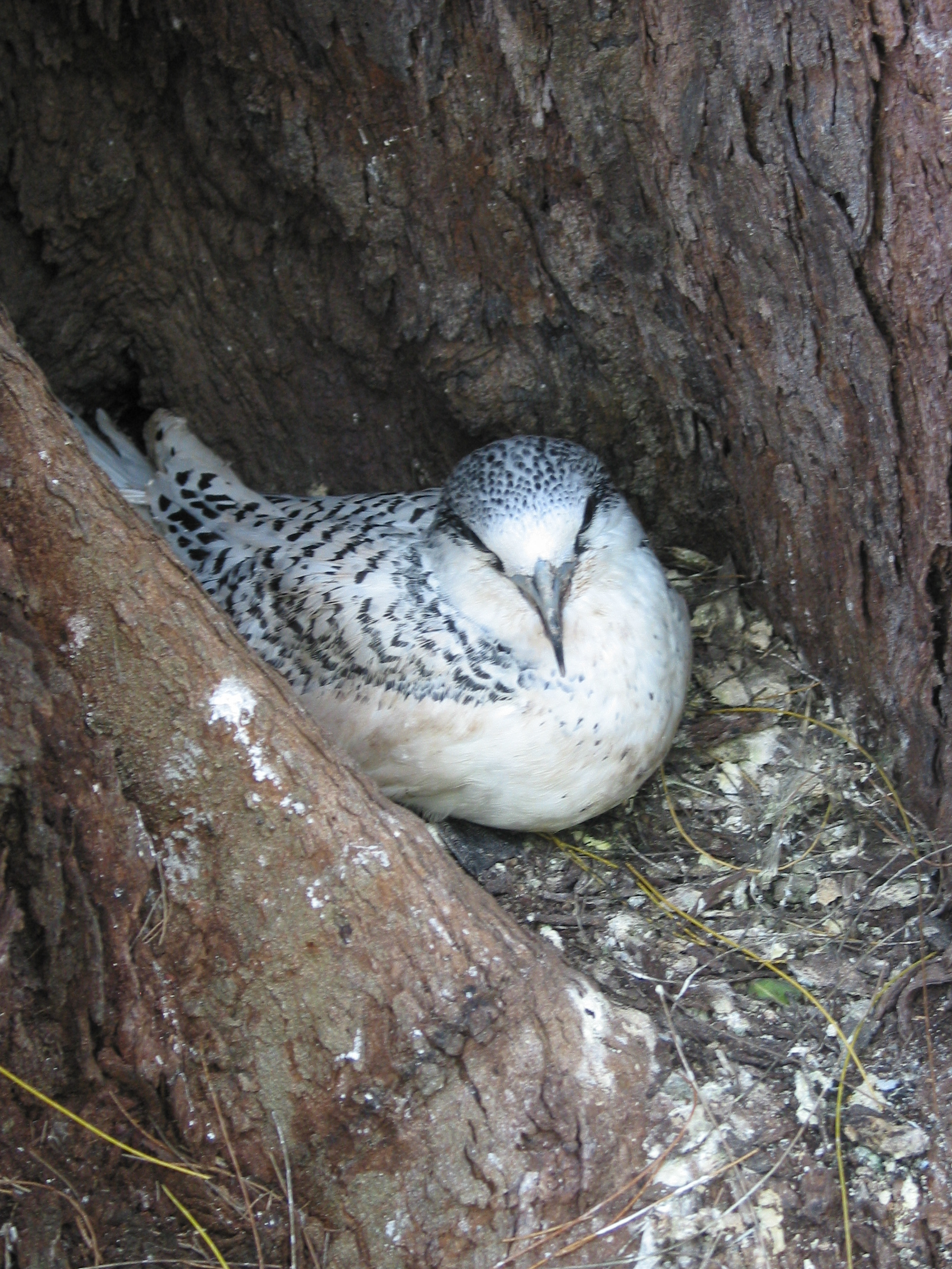 A juvenile White-tailed Tropicbird on Cousin Island, Seychelles.